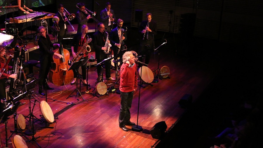 The Persian singer Mohsen Namjoo and the Netherlands Wind Ensemble - Muziekgebouw, Amsterdam, Oct. 2016 - Photo by Persian Dutch Network